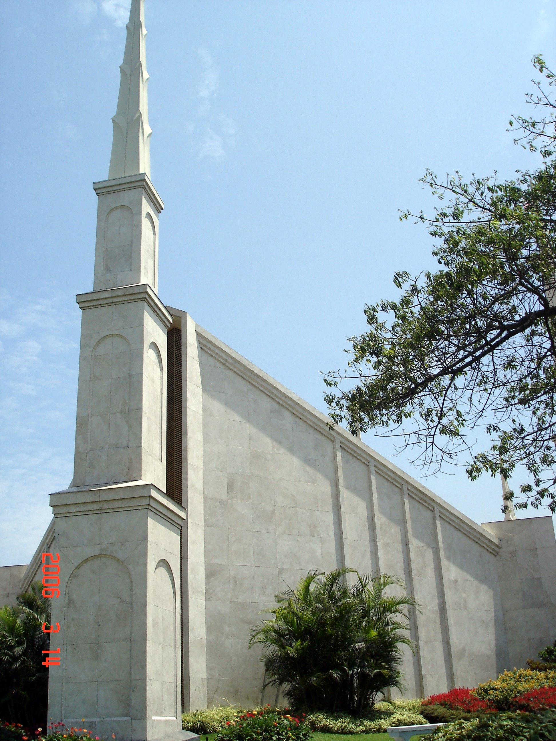 The Lima Peru Temple of the the Church of Jesus Christ of Latter-day Saints was taken by Jeremy O. Evans, who licensed the image cc-by-sa per the following email.